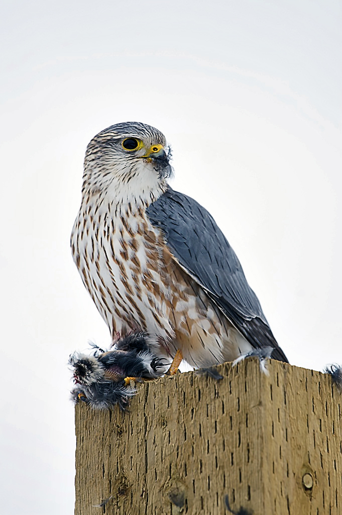 Male Prairie Merlin